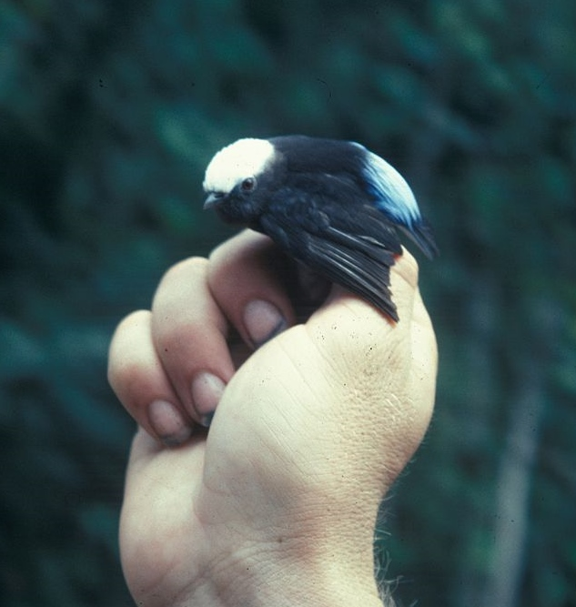 Blue-rumped Manakin (Lepidothrix isidorei) from the NBII Image Gallery. A male photographed in Ecuador.